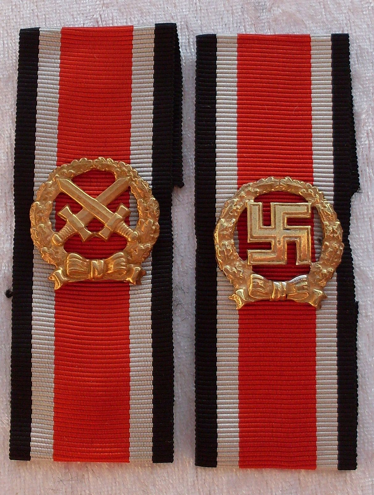 Honour Roll Clasp of the Army (de-nazified version of 1957 on the left, original on the right)